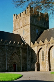 Author: myself